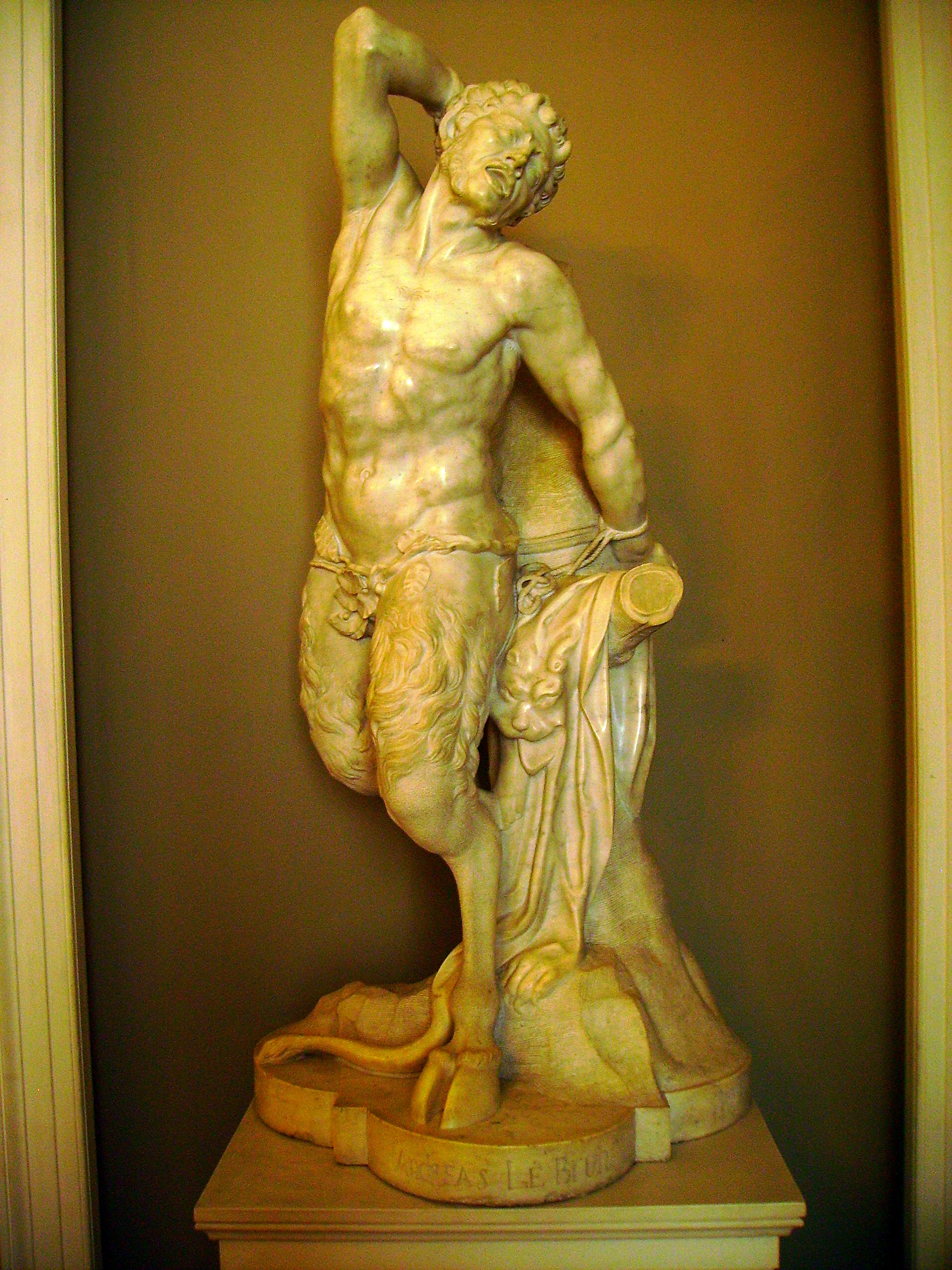 Marble statue of Marsyas by André Le Brun (from the Royal Castle in Warsaw)